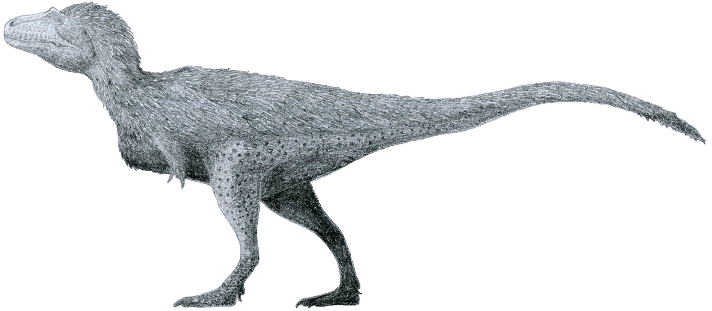 Lythronax life reconstruction by Tomopteryx. Proportions based on skeletal reconstruction in original description:[1]